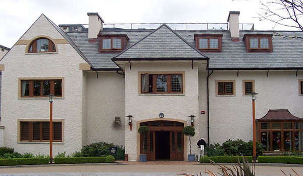 Part of the clubhouse at the K Club, Ireland. Original image was cropped and perspective fixed using GIMP